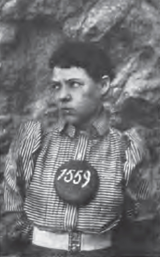 Pearl Hart, stage coach robber in Arizona.